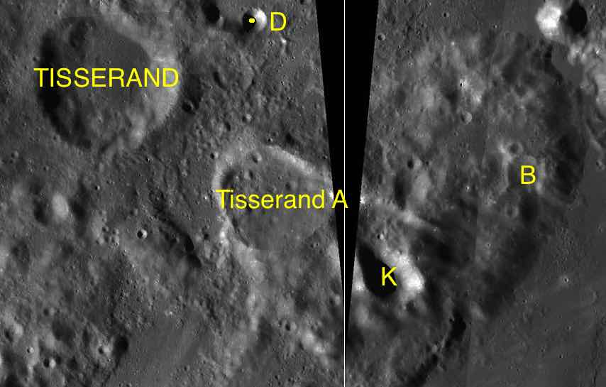 Parts of the charts LAC-43, LAC-44 used for the presentation